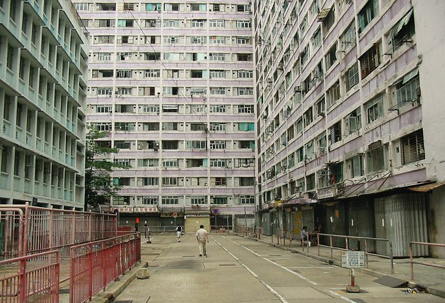 Ngau Tau Kok Third Street